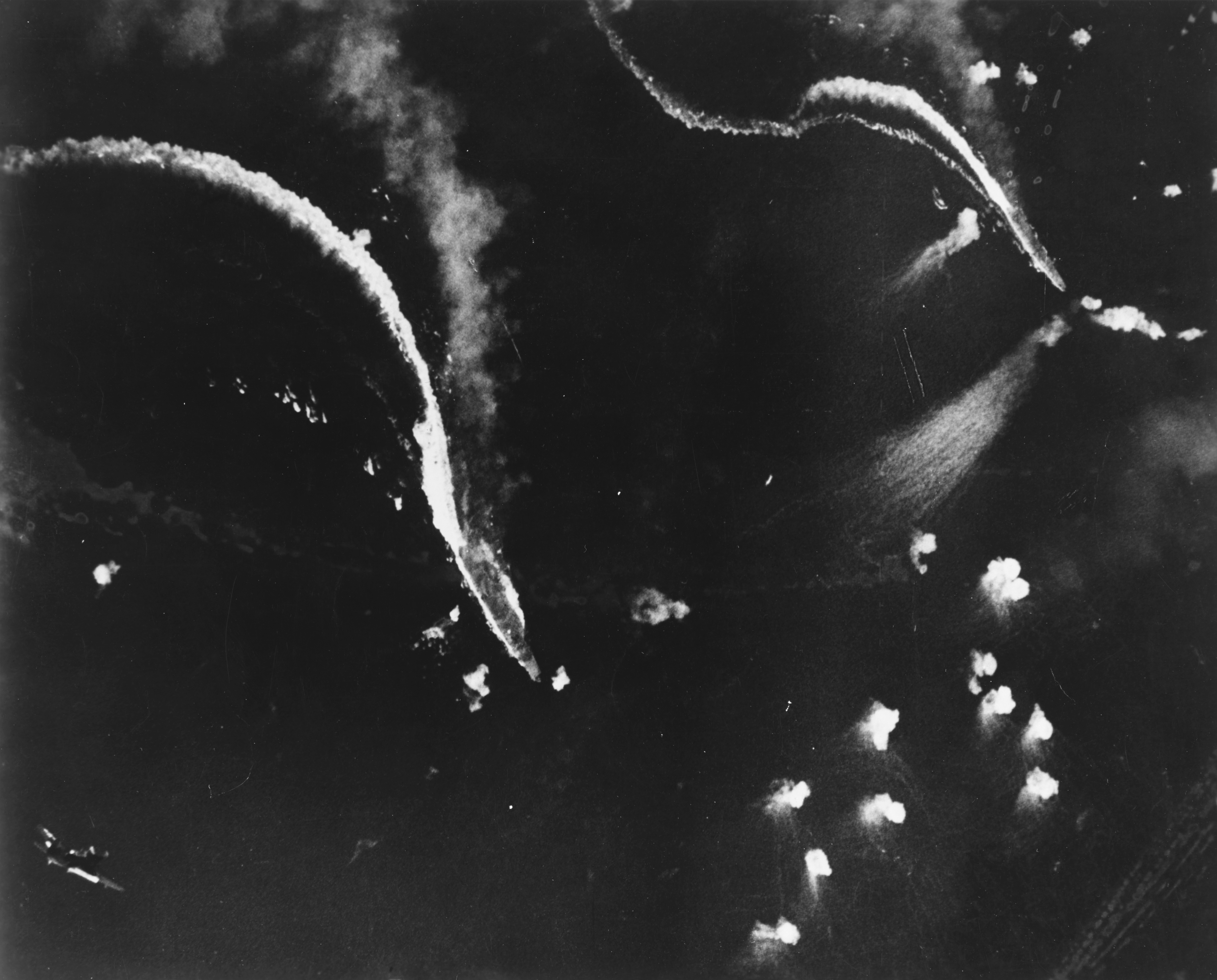 The Japanese aircraft carrier Zuikaku (left center) and (probably) the Japanese aircraft carrier Zuihō (right) under attack by U.S. Navy dive bombers during the Battle off Cape Engaño, 25 October 1944. Both ships appear to be making good speed, indicating that this photo was taken relatively early in the action. Both carriers are emitting heavy smoke. Note the heavy concentration of anti-aircraft shell bursts in lower right and right, and a U.S. Navy Curtiss SB2C Helldiver diving in the lower left.